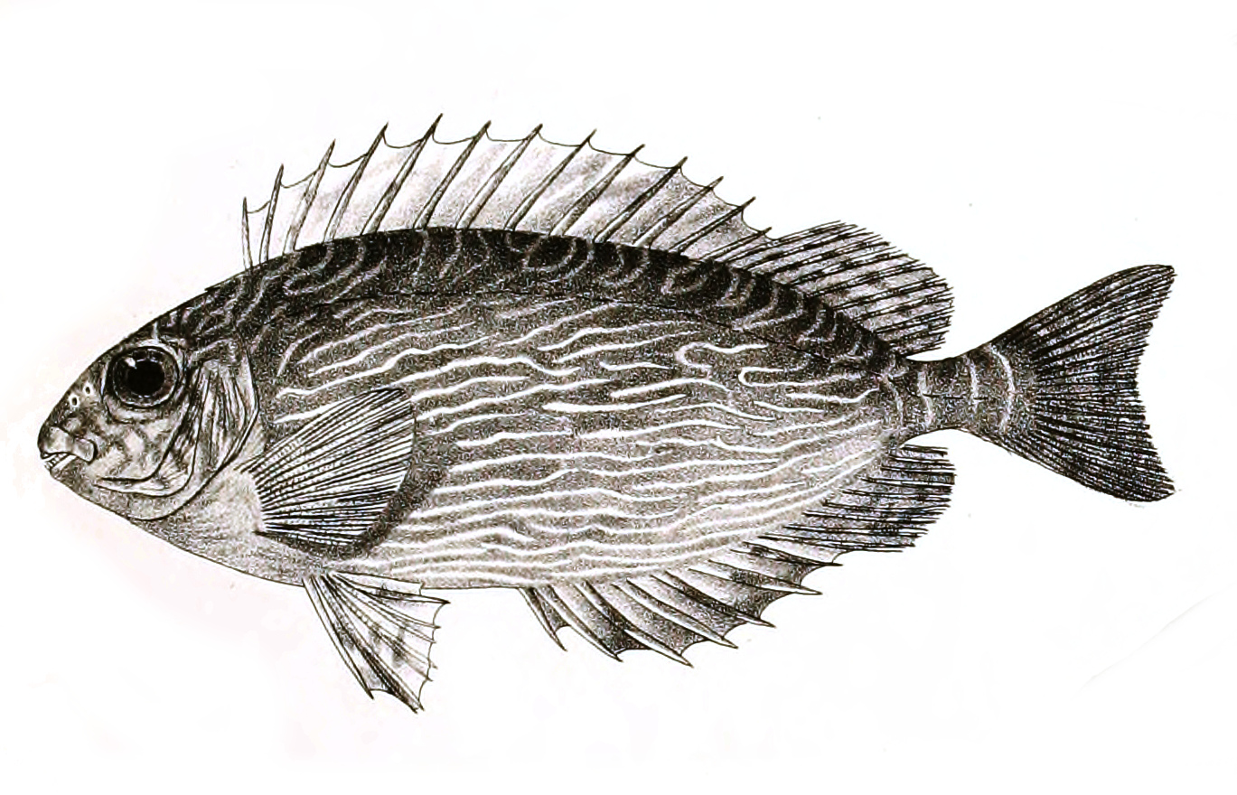 The species names / identity need verification. The original plates showed the fishes facing right and have been flipped here. Teuthis marmorata